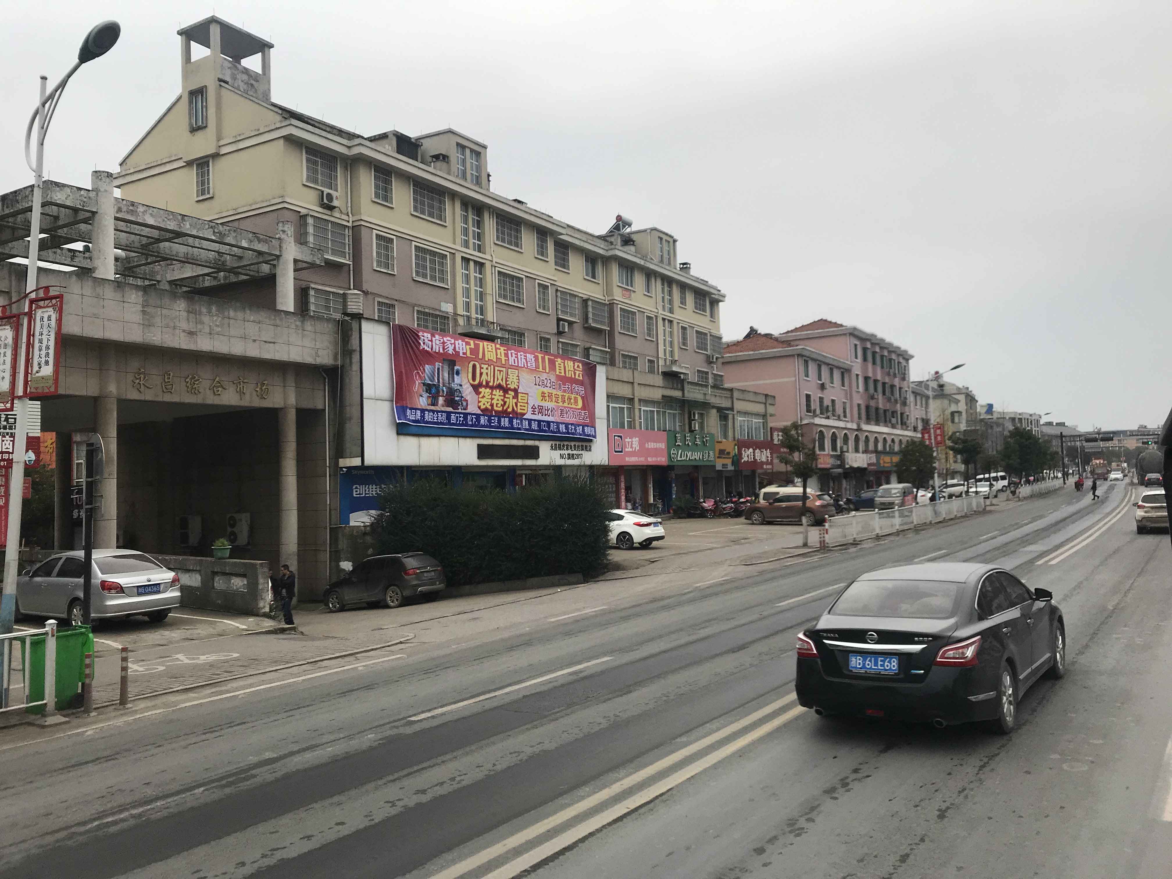 201812 Main Street Yongchang